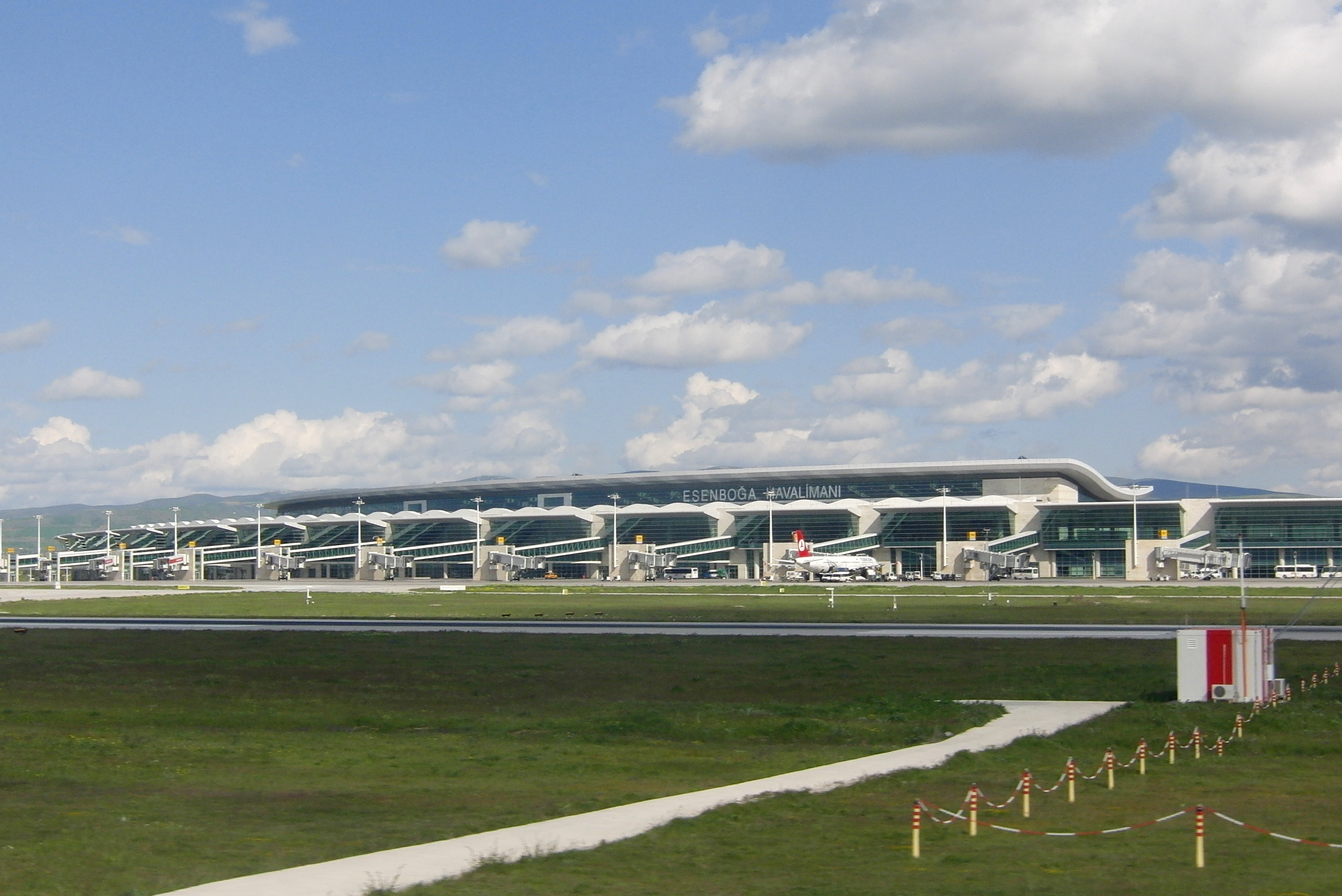 View on the terminal from the runway. Esenboğa Havalimanı, Ankara, Turkey.